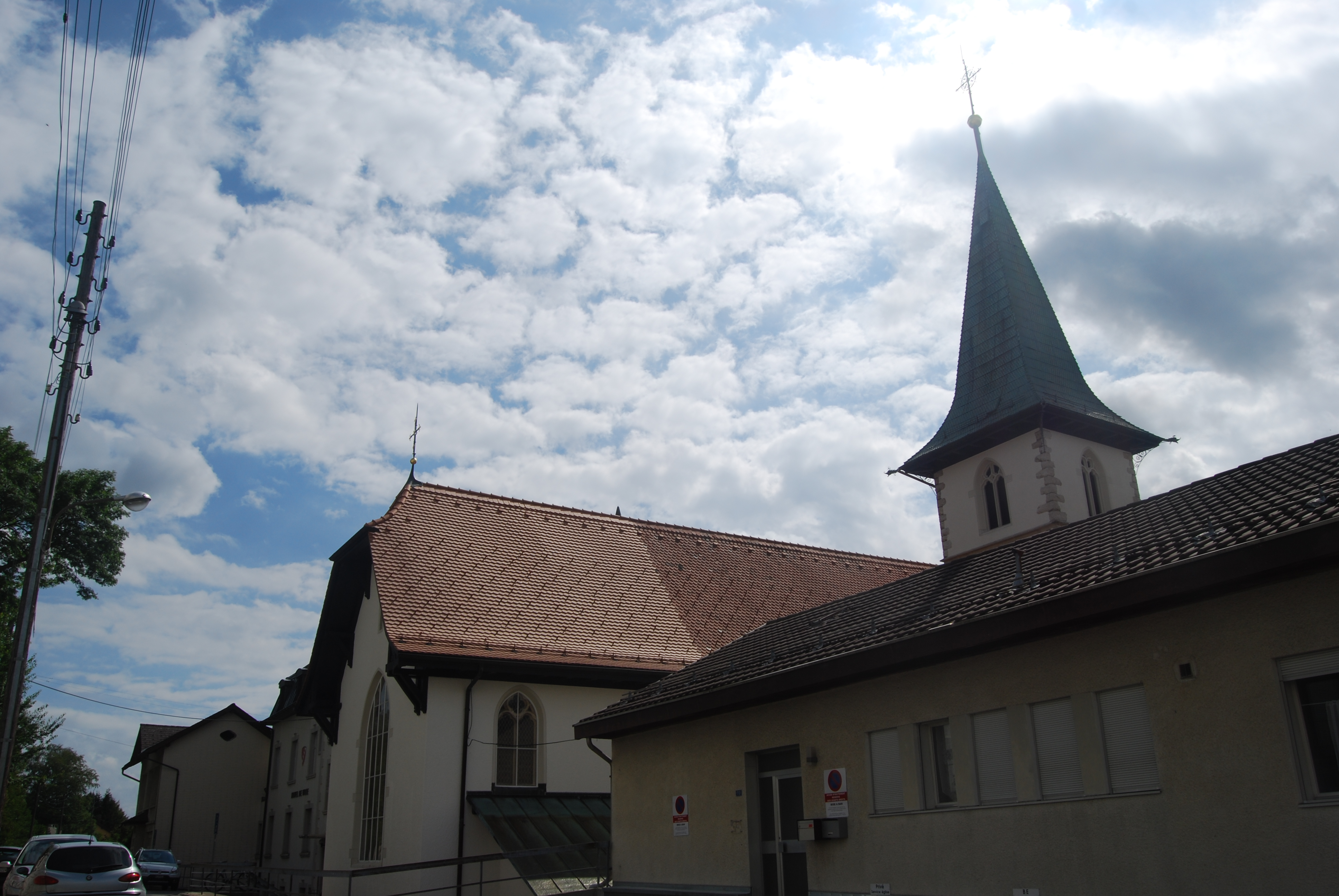 Church of Tramelan, canton of Bern, SwitzerlandEsperanto: Preĝejo de Tramelan, Kantono Berno, Svislando